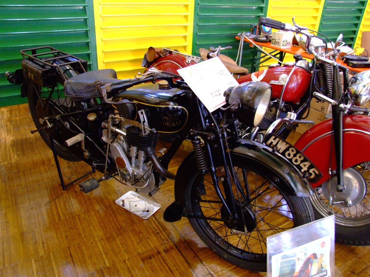 Sunbeam Typ1 349ccm 1929